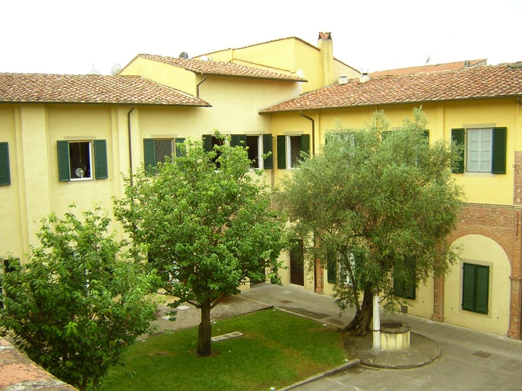 Photo of a building of the "Sant'Anna school of advanced studies" university